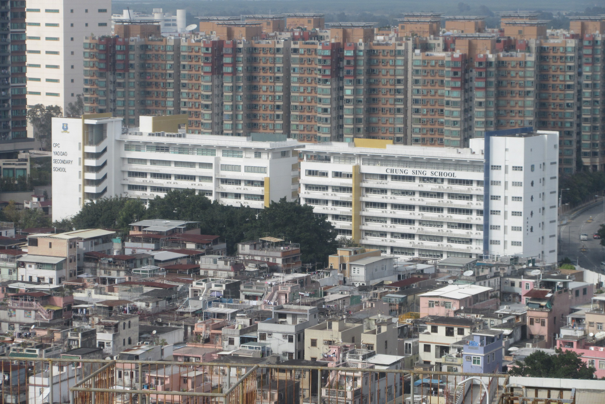 HK Yuen Long 采葉庭 The Parcville facades 鐘聲學校 Chung Sing School in Feb 2017 金巴崙長老會耀道中學 Cumberland Presbyterian Church Yao Dao Secondary School